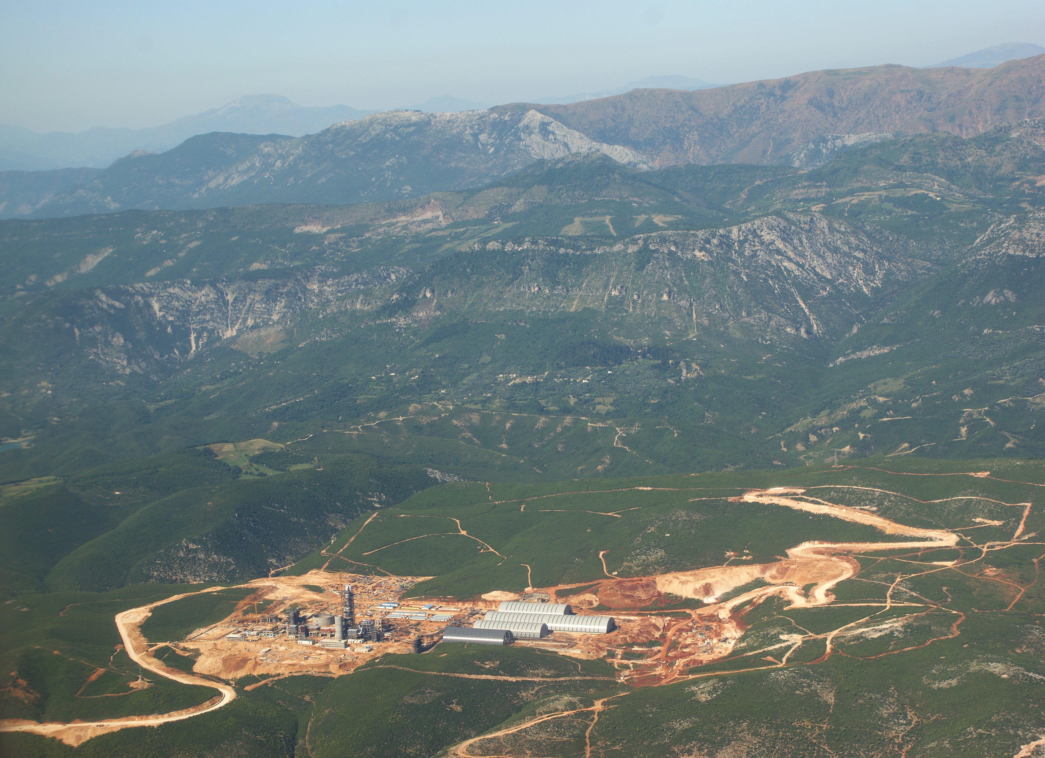 Cement factory of Thumana, Kruja, Northern Albania during construction